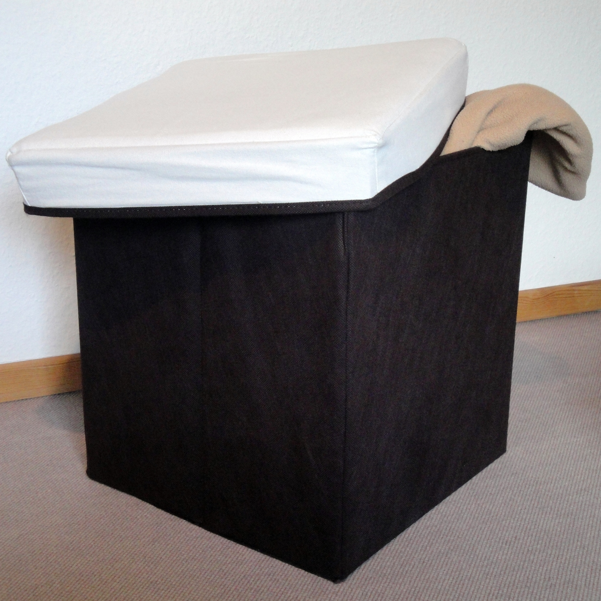 footstool ottoman cube stool seat storage